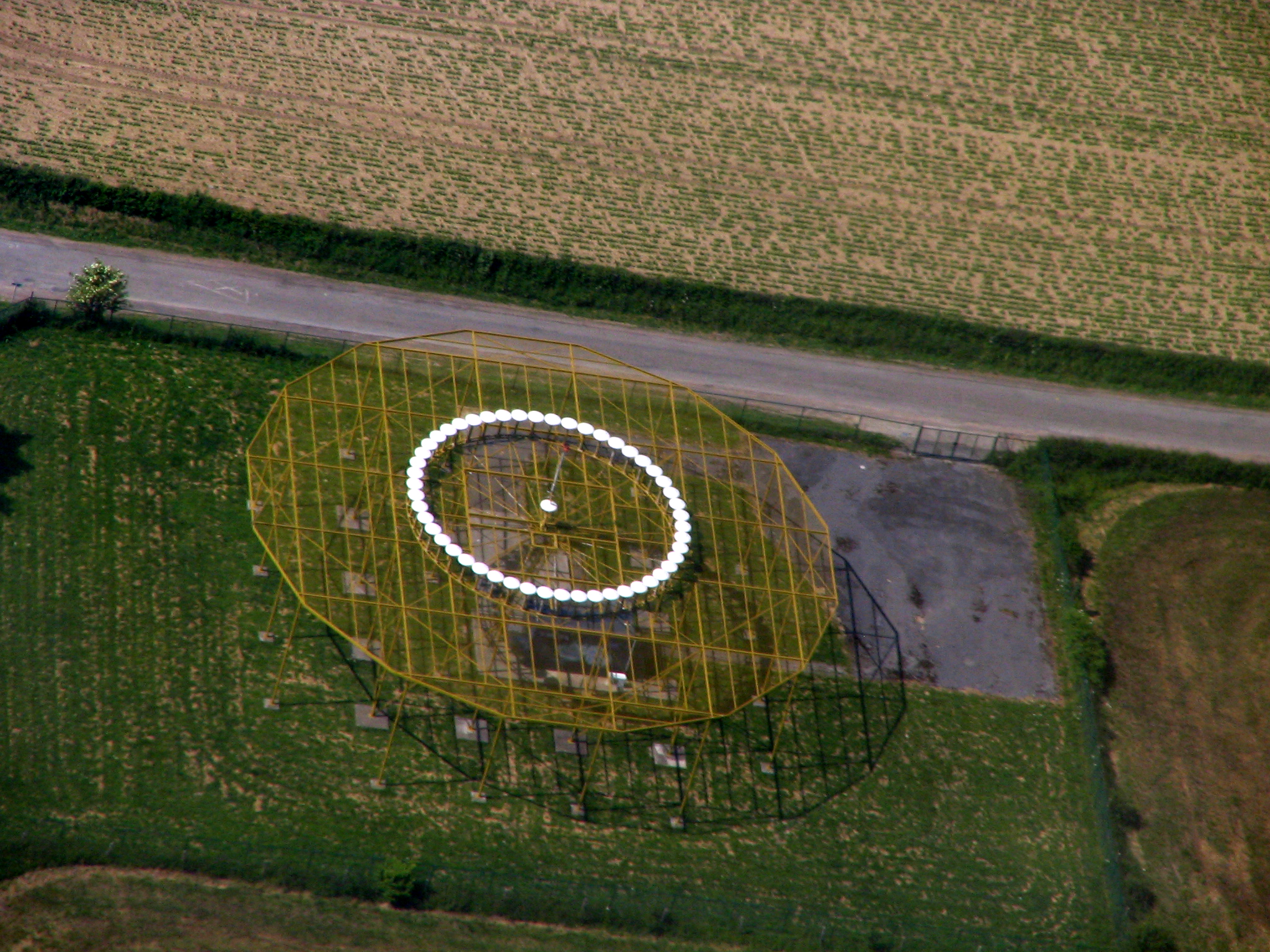 Aerial view of VOR ground antennas. (SPI VOR near Sprimont in Belgium)